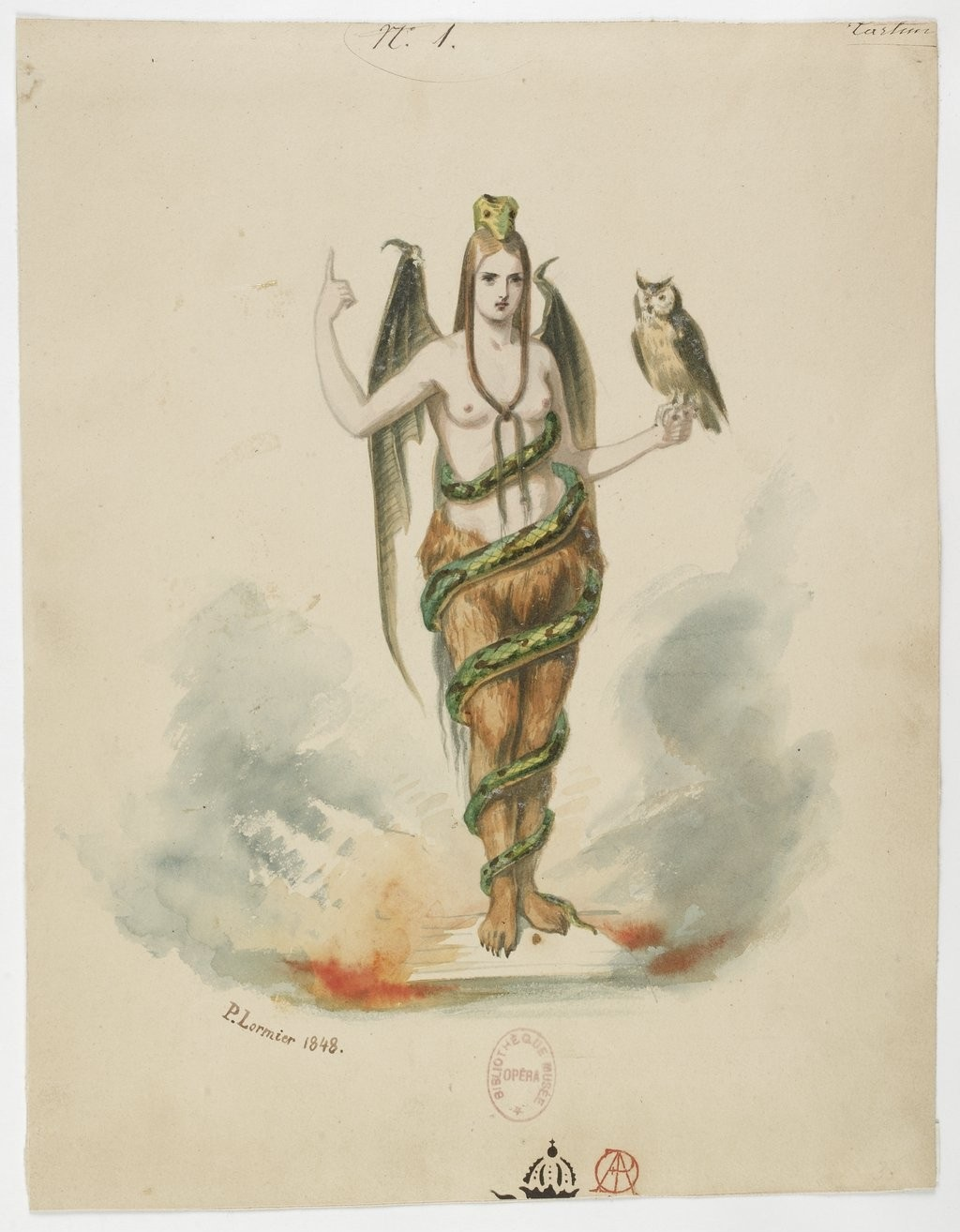 Infernal Apparition by Paul Lormier